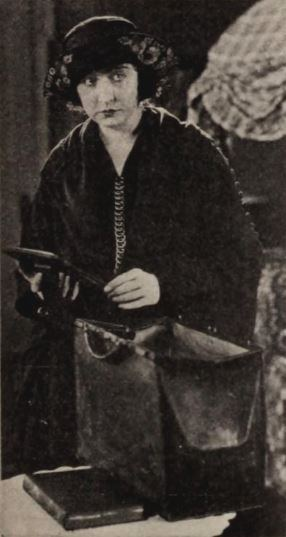 Still from the American drama film Guilty of Love (1920) with Dorothy Dalton, on page 73 of the September 4, 1920 Exhibitors Herald.